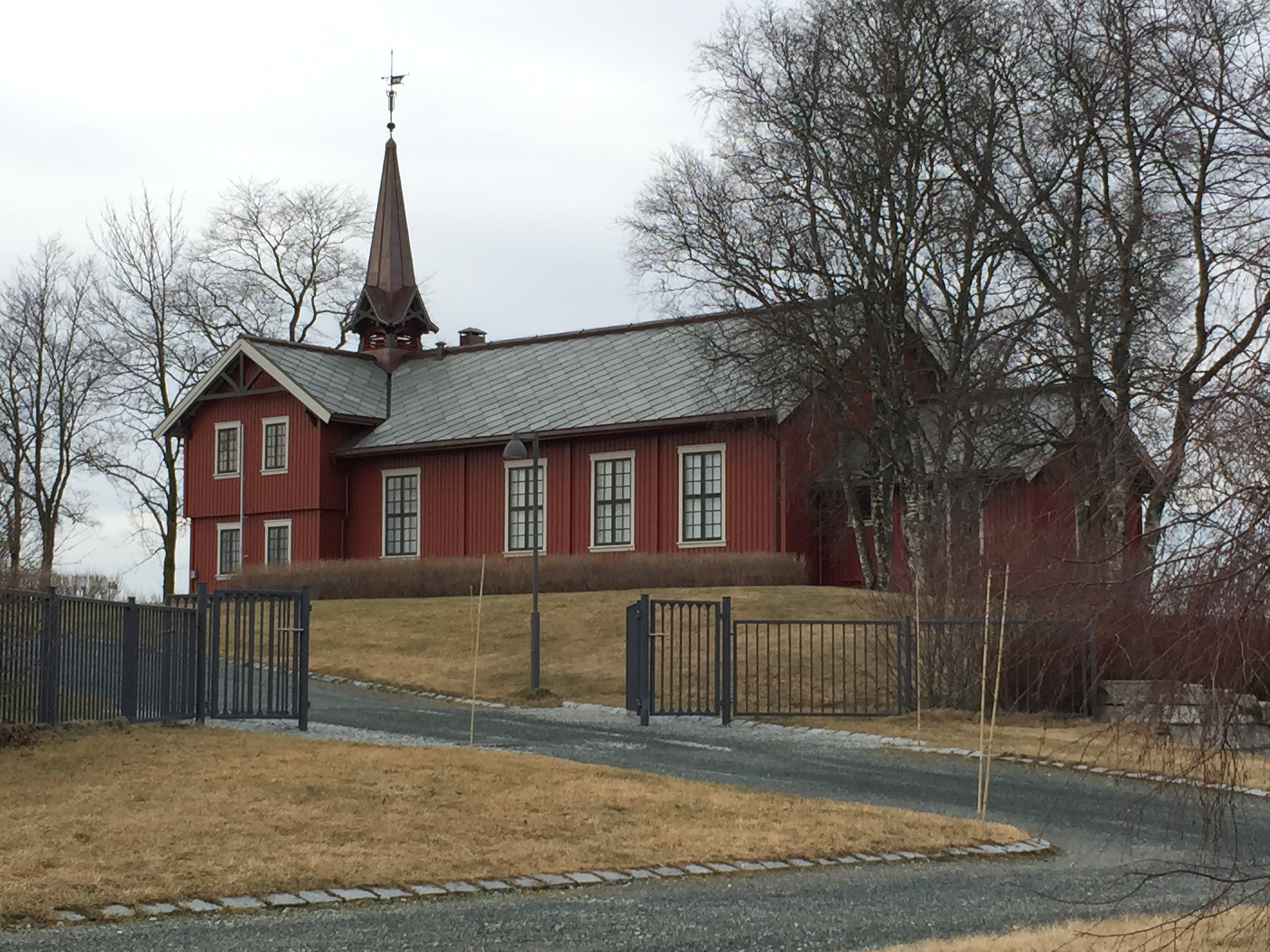 Leira chapel in Trondheim, Norway